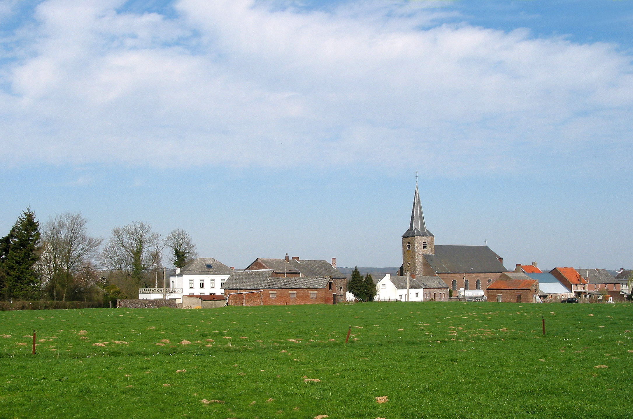 Sars-la-Buissière (Belgium), the village in early spring.